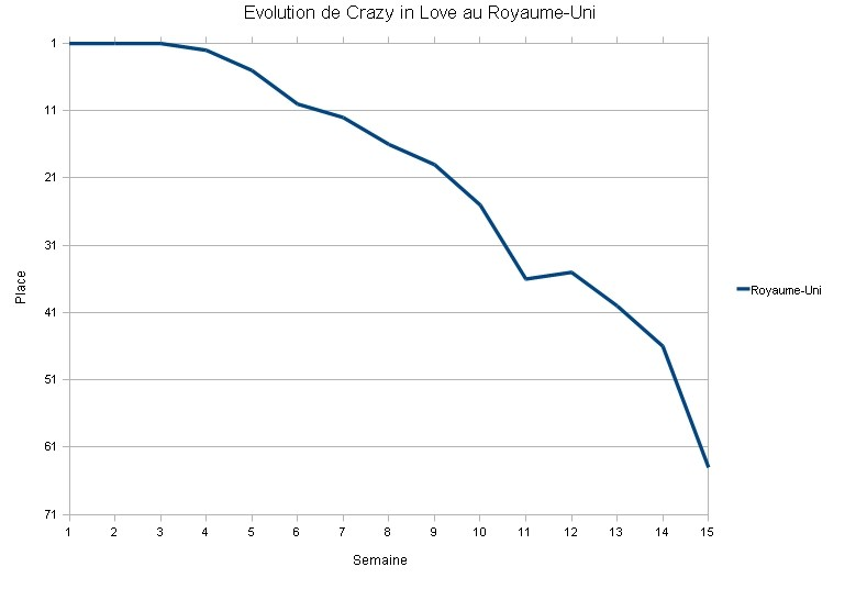 Evolution in the UK Singles Chart of Beyoncé Knowles' song, Crazy in Love.